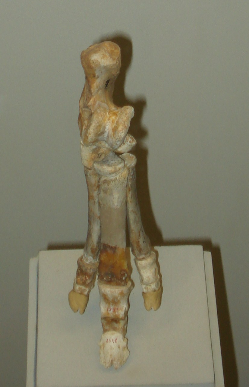 fossil of plagiolophus